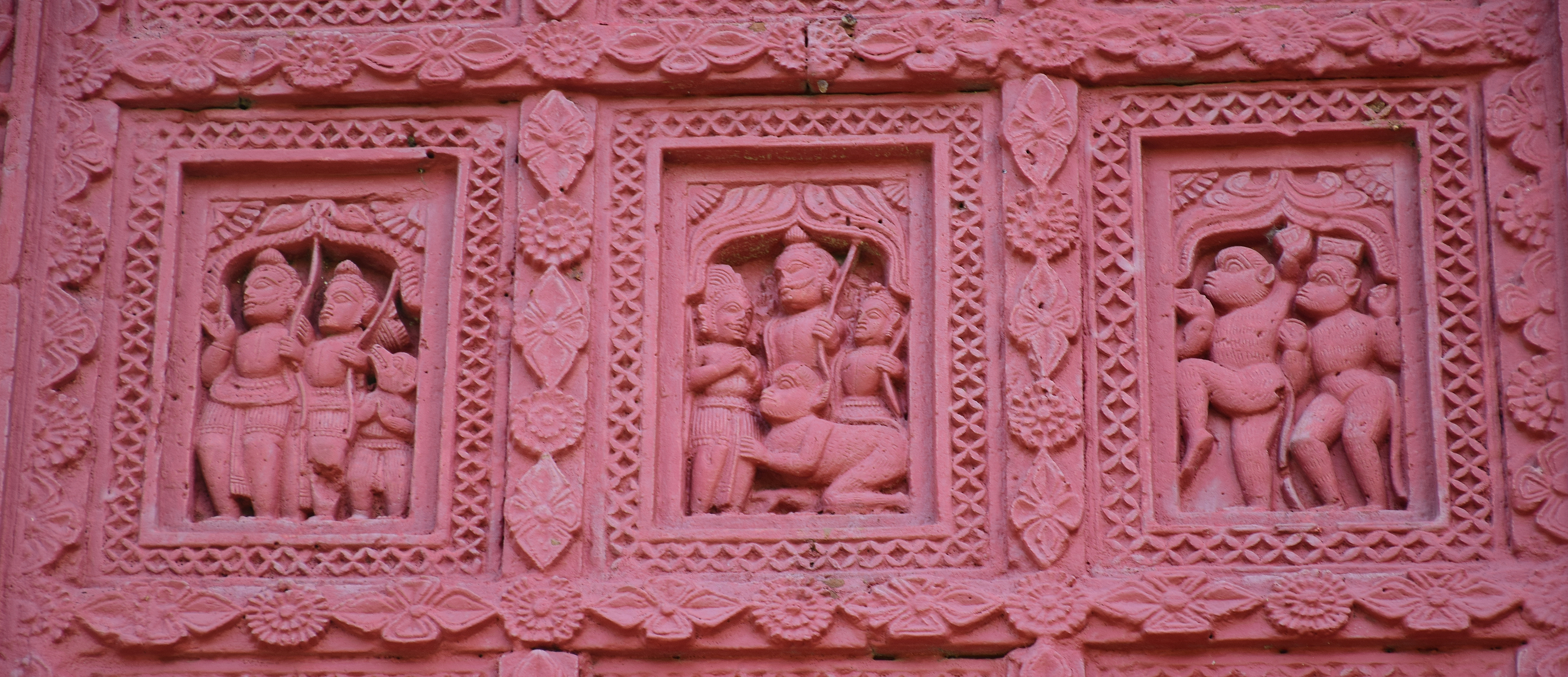 Terracotta plaques on Radha Kanta temple in Dakshinpara area of Akui at Bankura district of West Bengal, India, This is a 1764 built Pancha Ratna temple with rich terracotta facade.